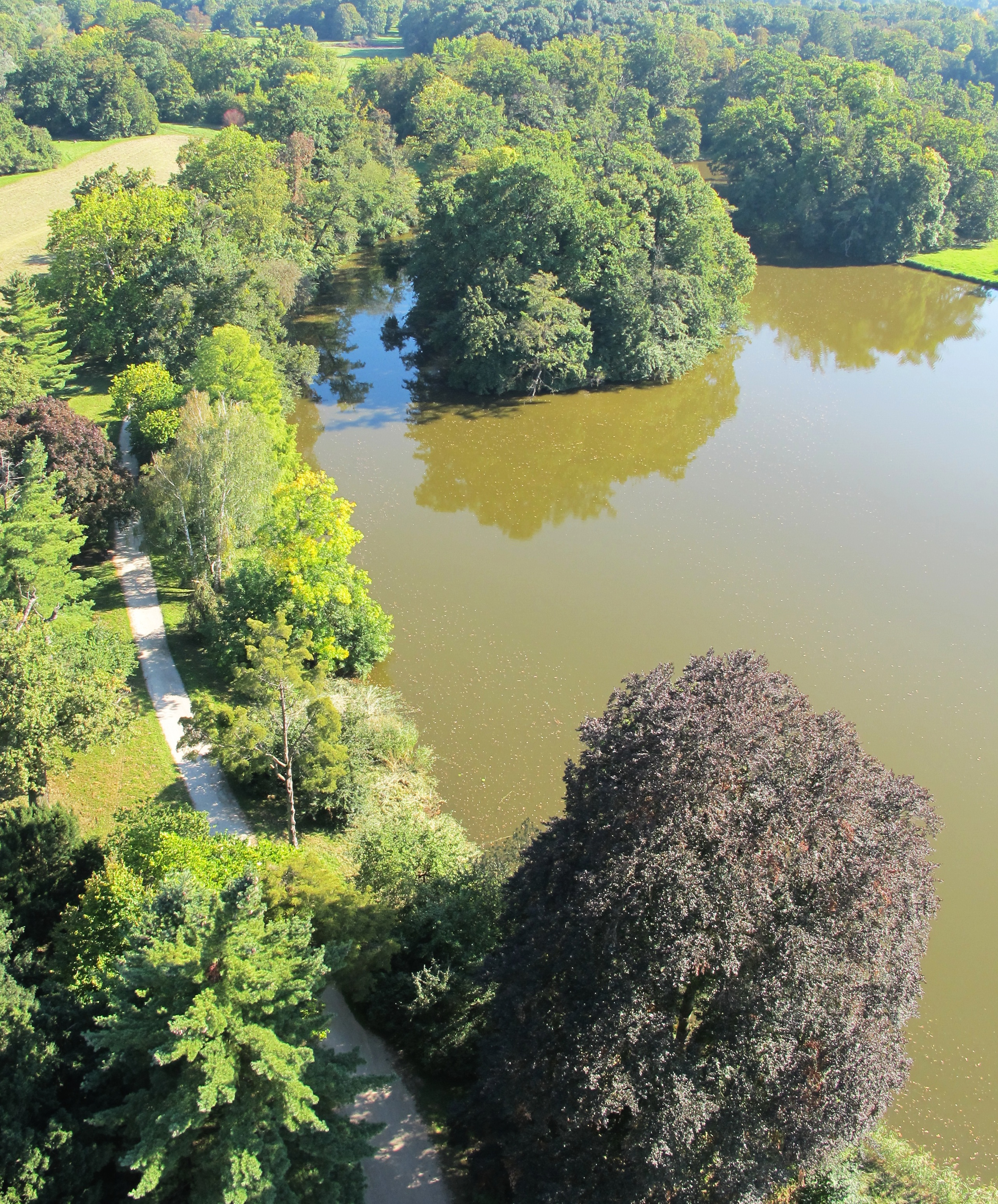 Pond between Lednice castle and Minaret in national nature reserve Lednické rybníky, Břeclav District